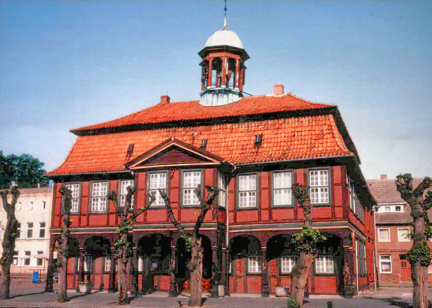 Town hall in Boizenburg